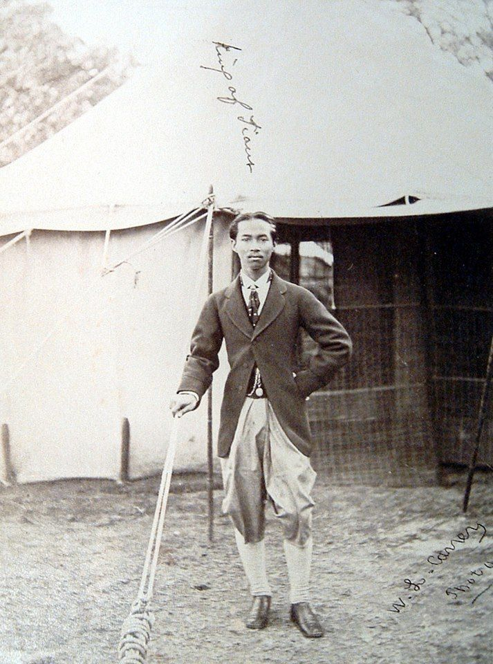 King Chulalongkorn 1872